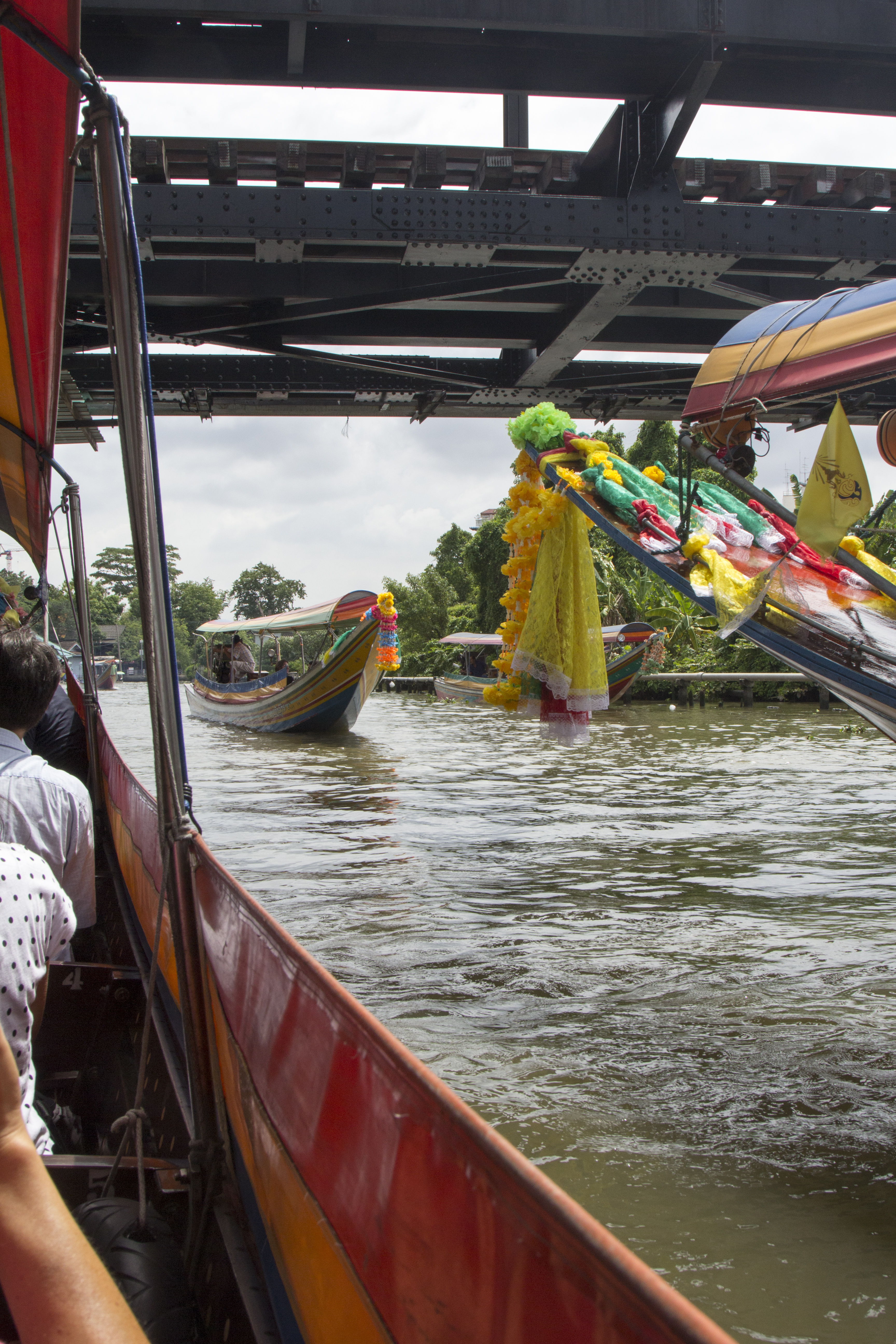 Thailand 2015